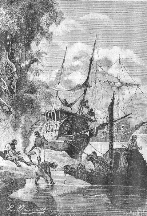 An illustration from Jules Verne's novel "Eight Hundred Leagues on the Amazon".